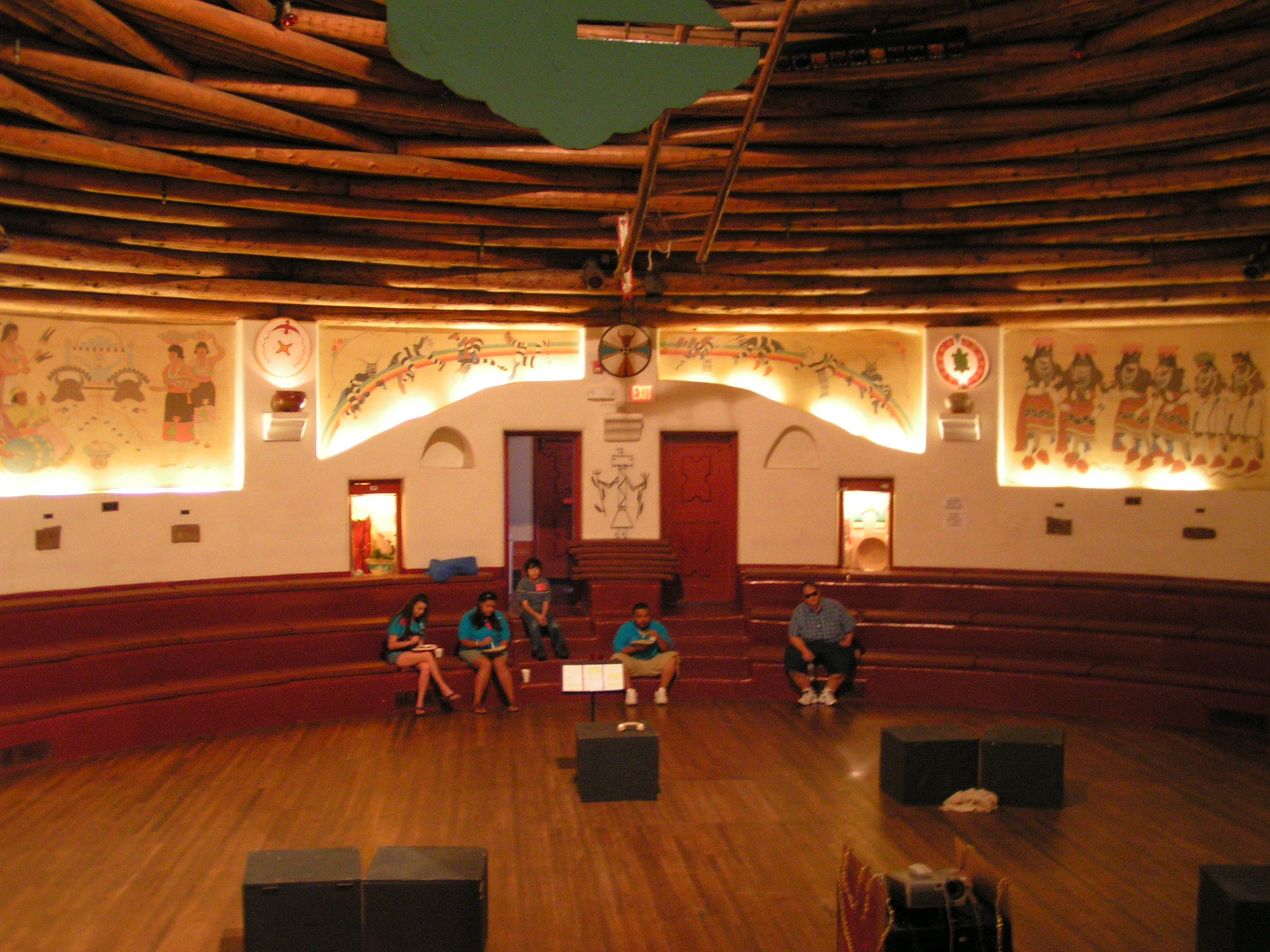 Interior photo of the Koshare Indian Museum Kiva